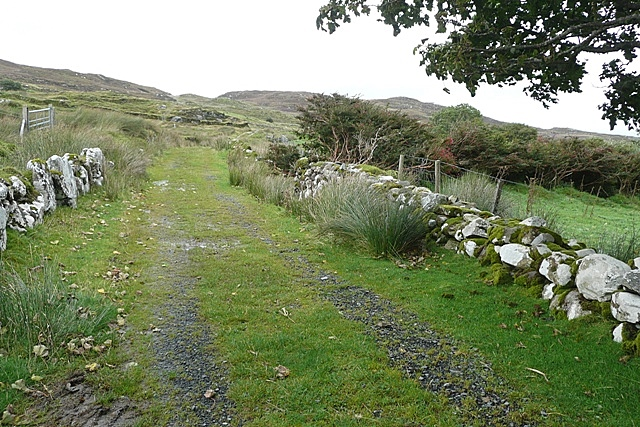 Western Way over The Reek The Western Way path (250km through Mayo and Galway) passes over The Reek (Croagh Patrick and its outliers) along this very good path.